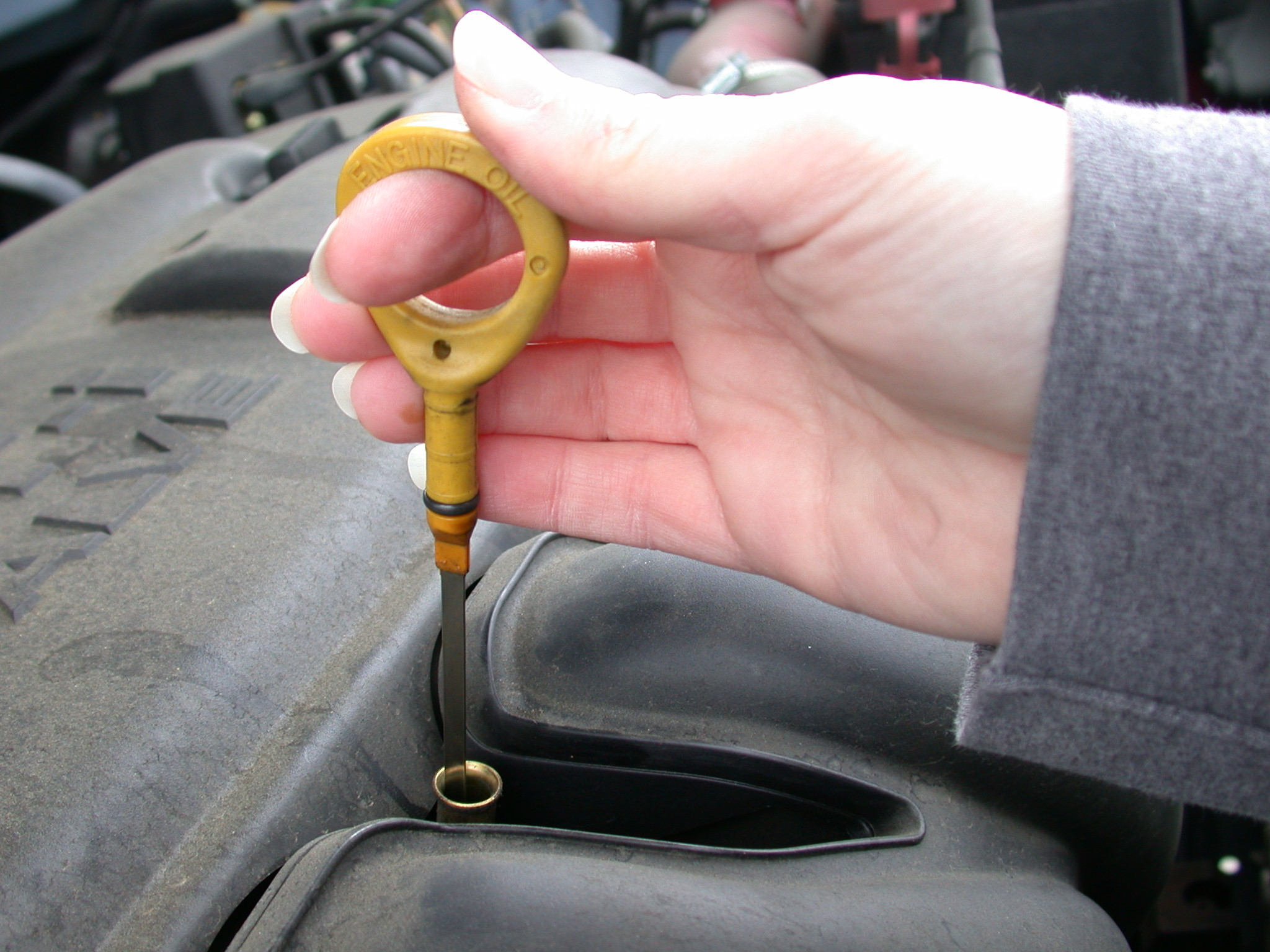 Dipstick for measuring the level of motor oil in an automobile.